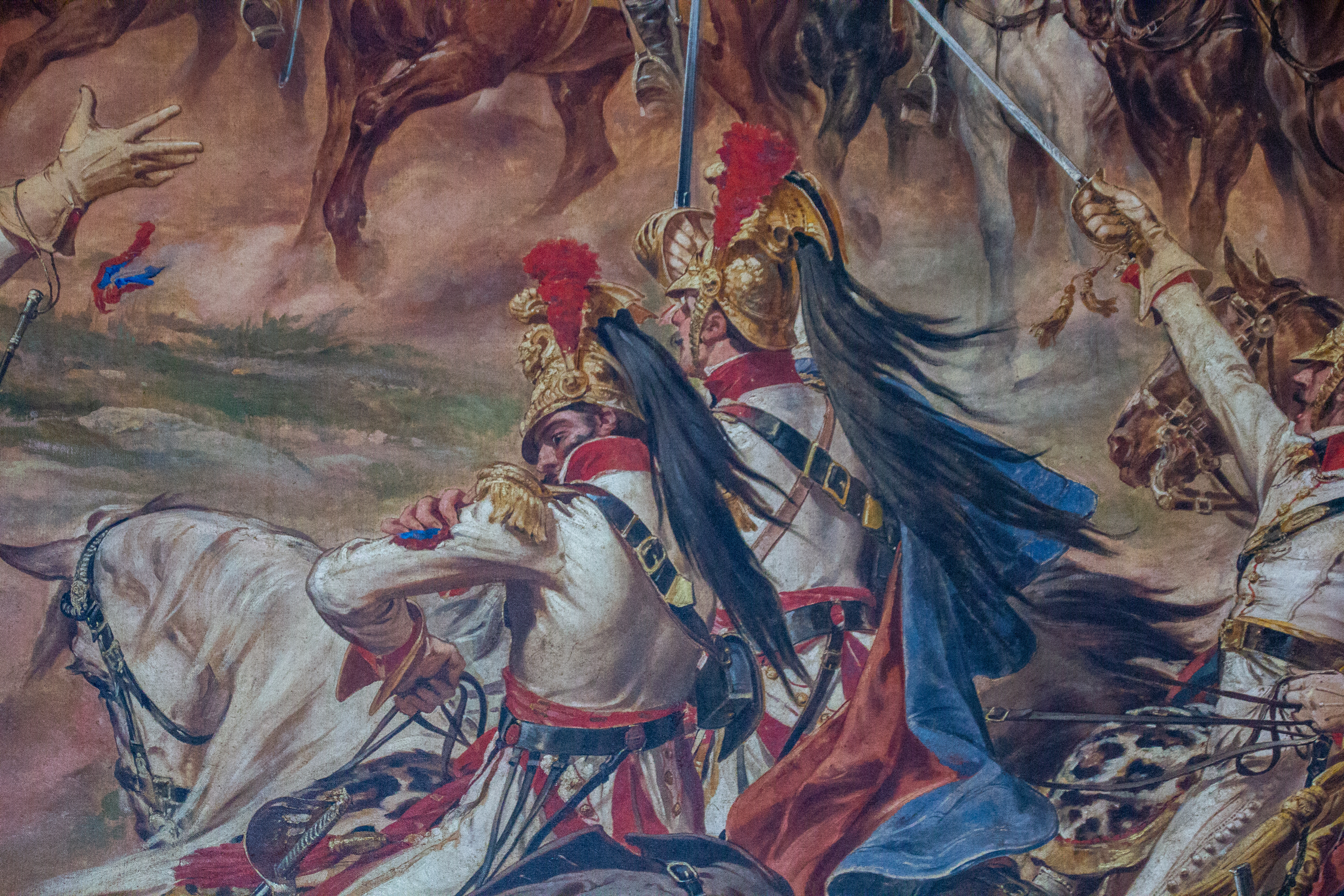 Backstage tour of the Museu do Ipiranga, University of São Paulo, Brazil